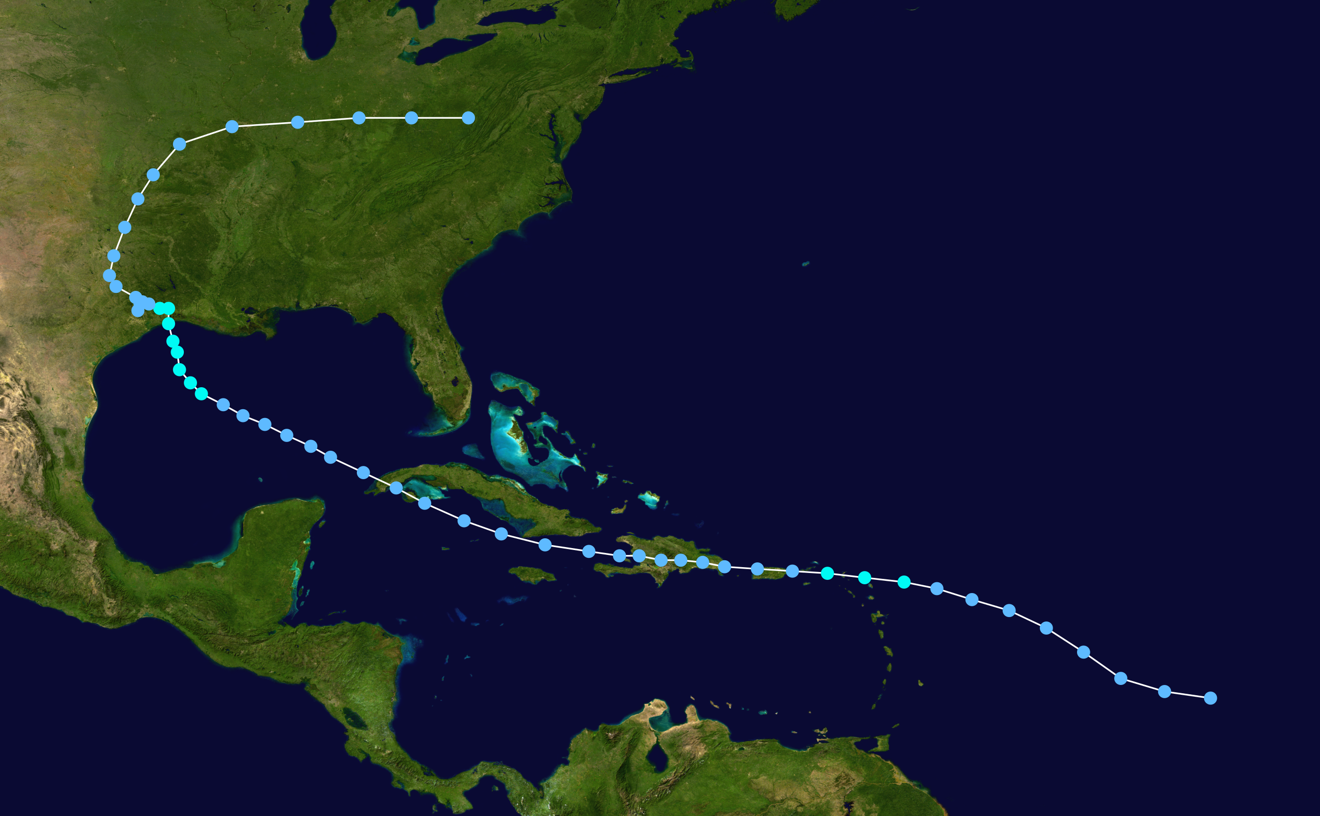 Track map of Tropical Storm Claudette of the 1979 Atlantic hurricane season. The points show the location of the storm at 6-hour intervals. The colour represents the storm's maximum sustained wind speeds as classified in the Saffir–Simpson scale (see below), and the shape of the data points represent the nature of the storm, according to the legend below. Saffir–Simpson scale Tropical depression≤38 mph≤62 km/h Category 3111–129 mph178–208 km/h Tropical storm39–73 mph63–118 km/h Category 4130–156 mph209–251 km/h Category 174–95 mph119–153 km/h Category 5≥157 mph≥252 km/h Category 296–110 mph154–177 km/h Unknown Storm type Tropical cyclone Subtropical cyclone Extratropical cyclone / Remnant low / Tropical disturbance / Monsoon depression